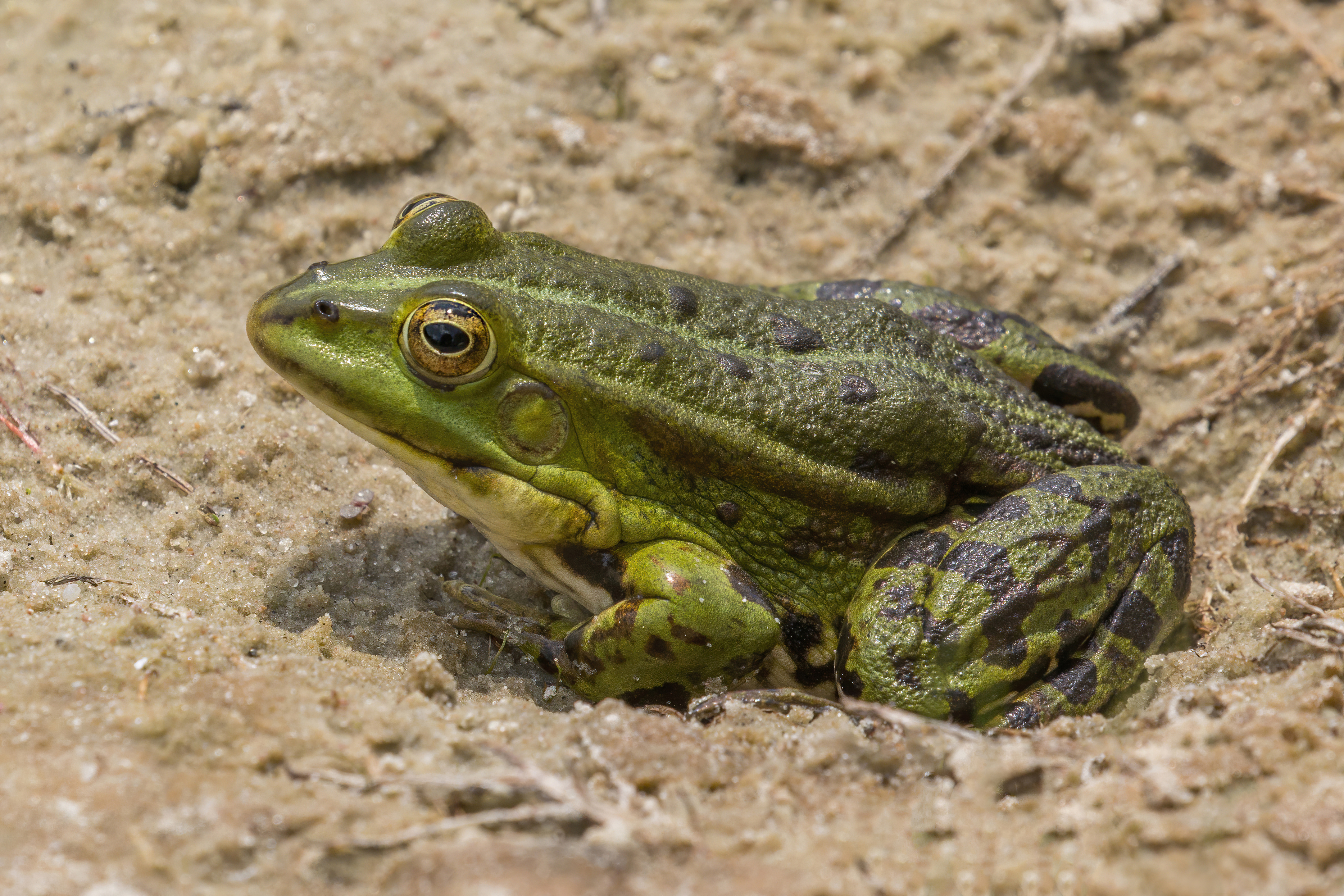 Marsh frog (Pelophylax ridibundus), young adult, Kampinos Forest, Poland